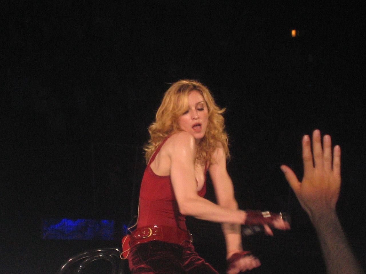 Madonna at her 'Confessions' Tour at Wembley Arena.